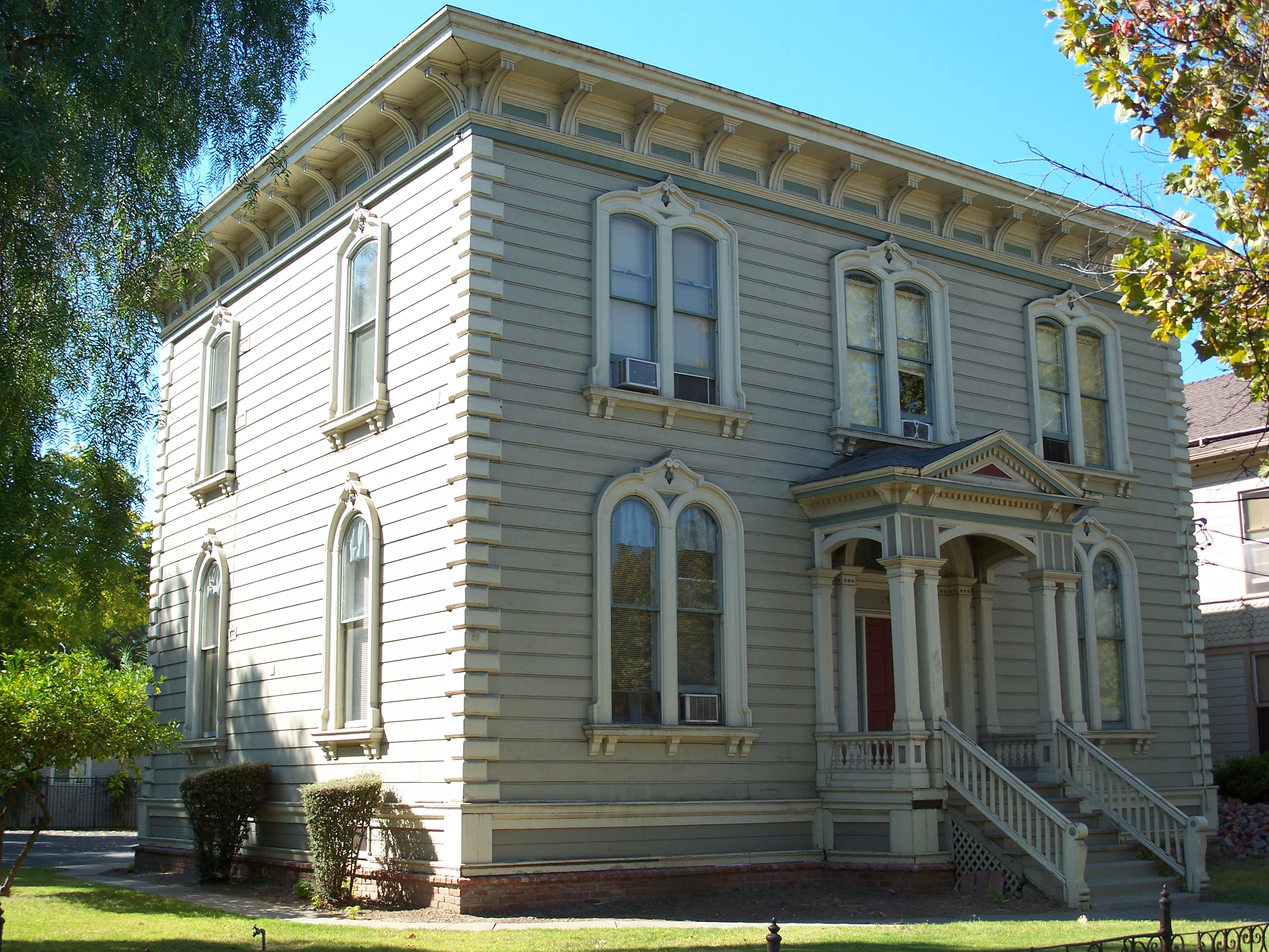 Hutchinson residence. Italianate style, built in 1870. 593 South Sixth Street. San Jose, California, USA